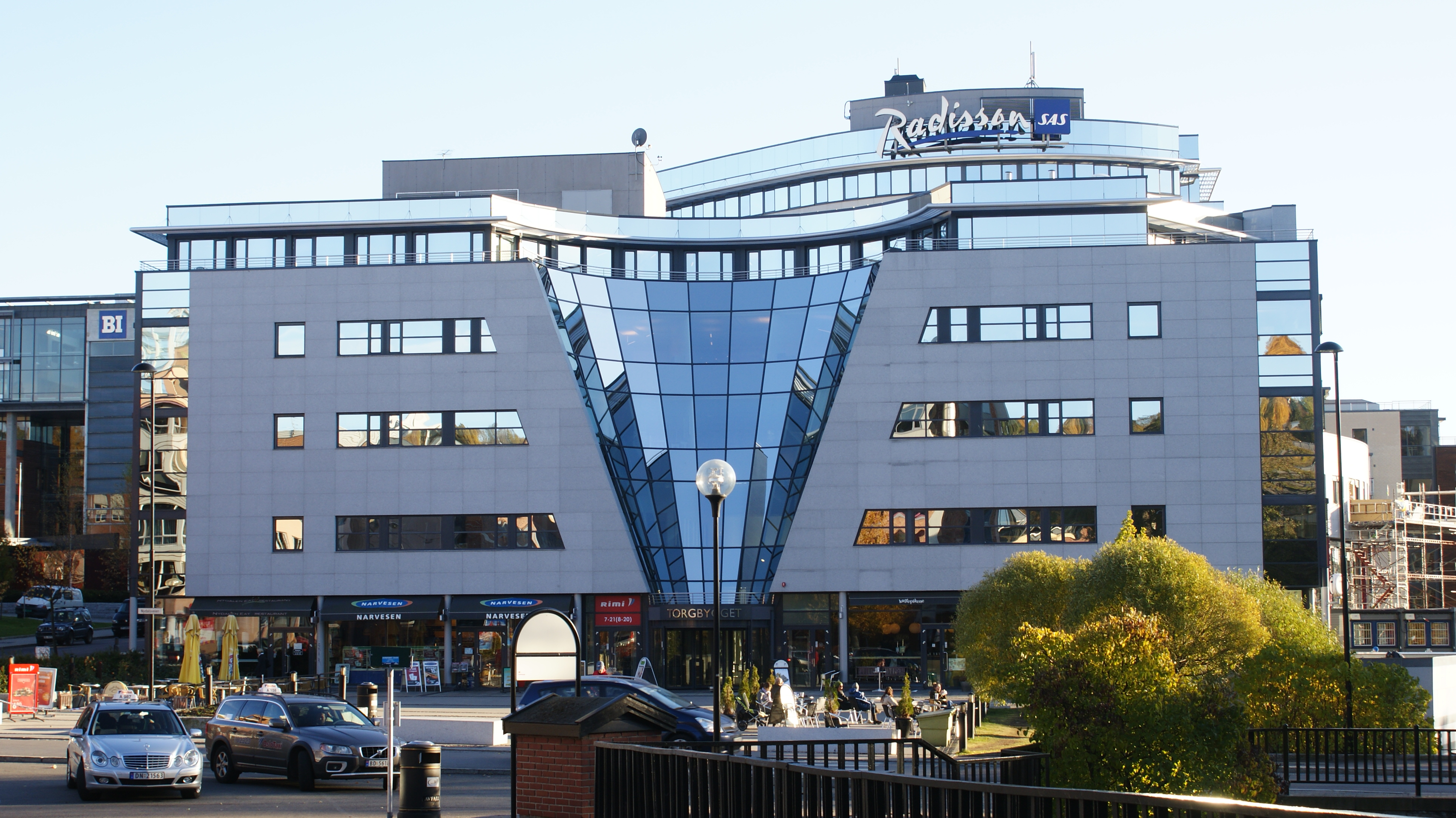 Torgbygningen with Radisson BLU (formerly Radisson SAS)-hotel behind it, in Nydalen, Nordre Aker, Oslo.